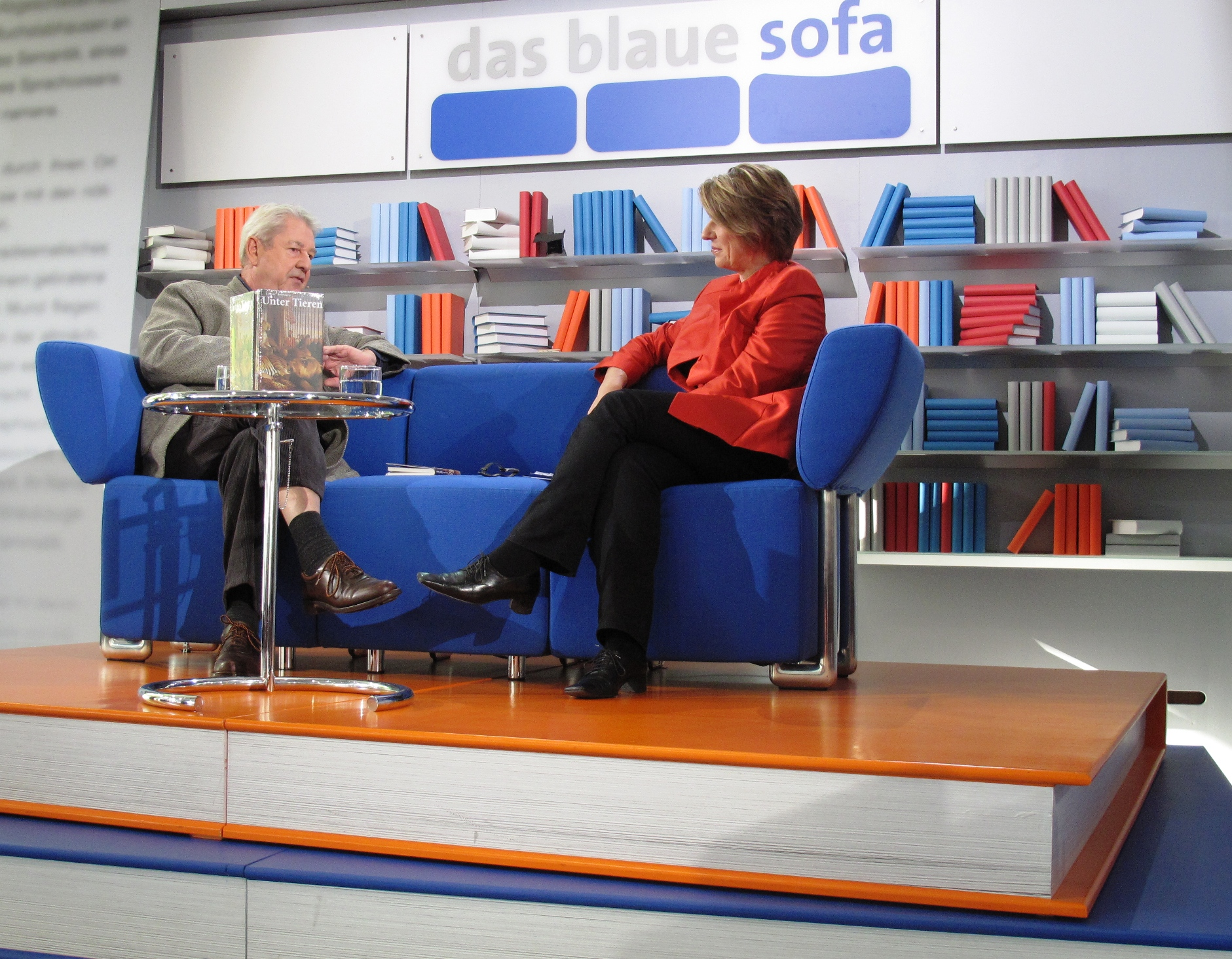 Frankfurt Book Fair 2011